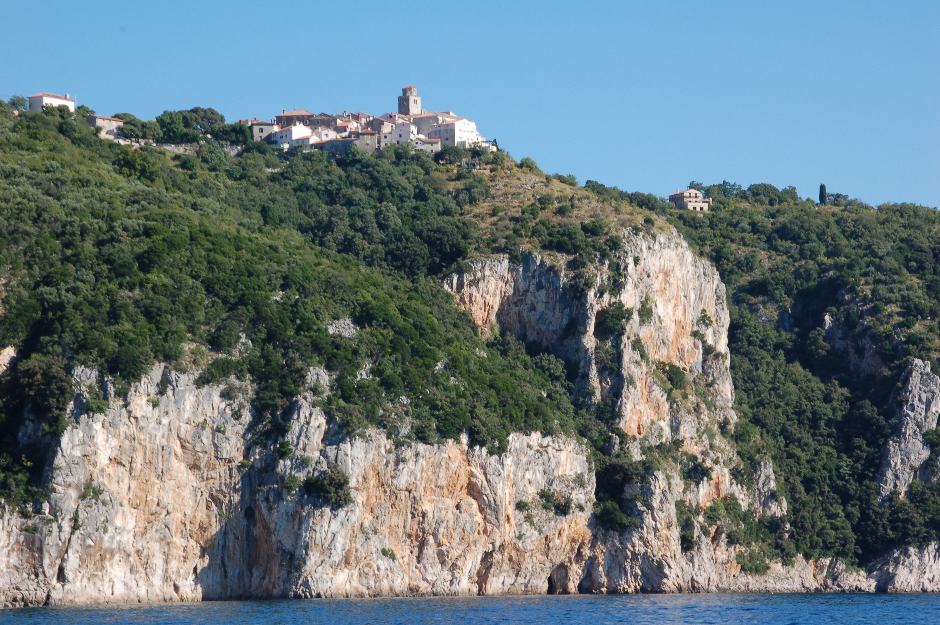 Croatia, Istria, Brseč 15 km south Lovran